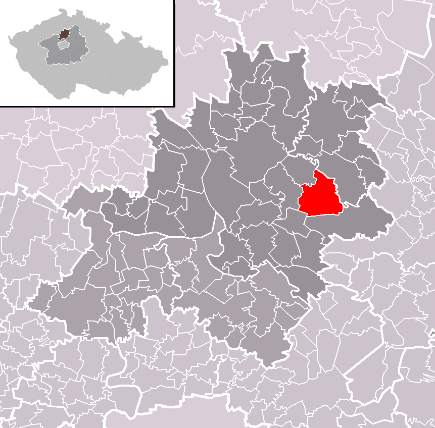 Location of Řepín municipality within Mělník District and administrative area of Mělník as a Municipality with Extended Competence.